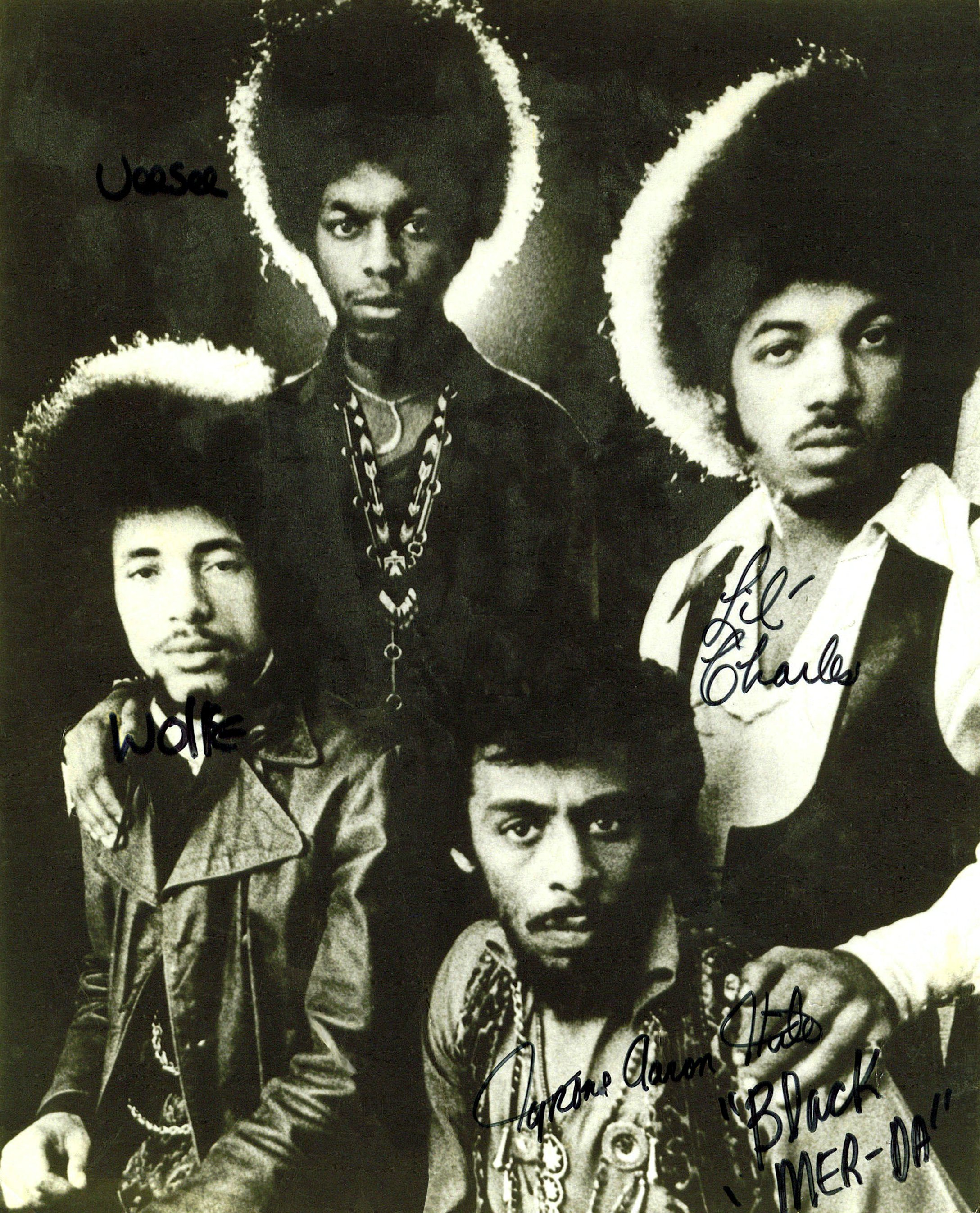 Photo Of My Band Black Merda